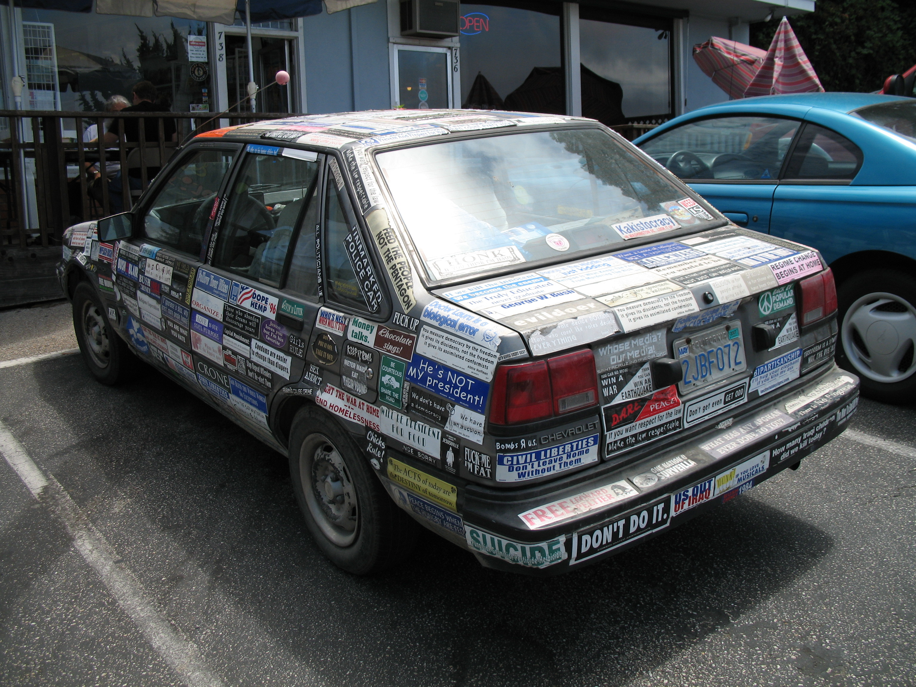 Bumper sticker car parked in Santa Cruz, California.